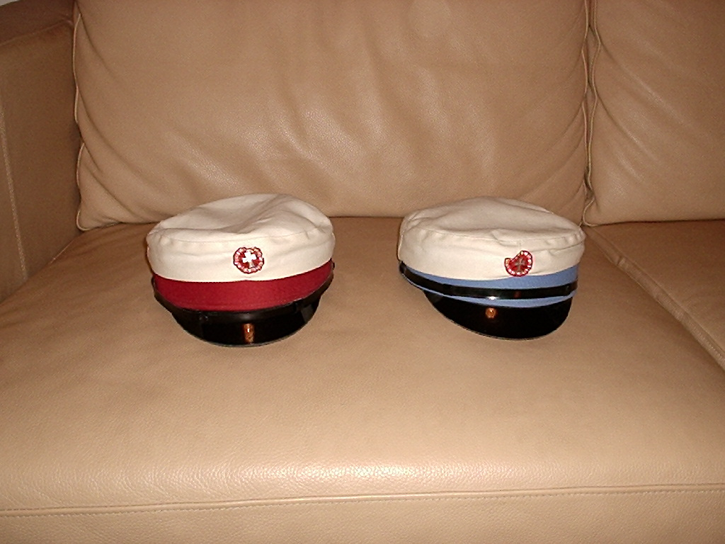 Worn hischool graduation hats from Denmark. The blue is for students graduated after 2-year highschool (HF in Danish) and the red is for 3-year highschool (gymnasium in Danish